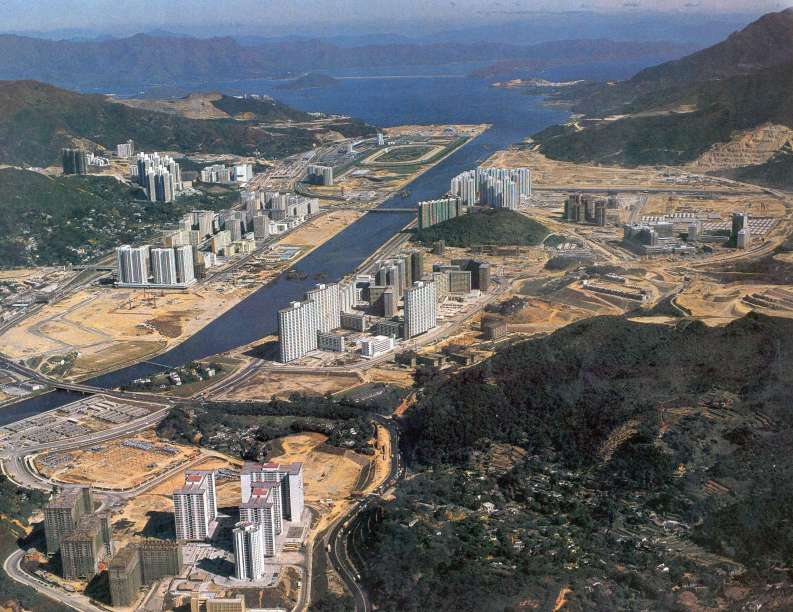 The photograph shows the area around Shing Mun River (Shatin, Hong Kong) in the early stage of development. The area is now well-developed and has a high density of buildings. For instance, the large plain land on the left of the photograph is now a large shopping mall, The New Town Plaza. Image:ShaTin-ShingMunRiver-EarlyStageOfDevelopment.jpg